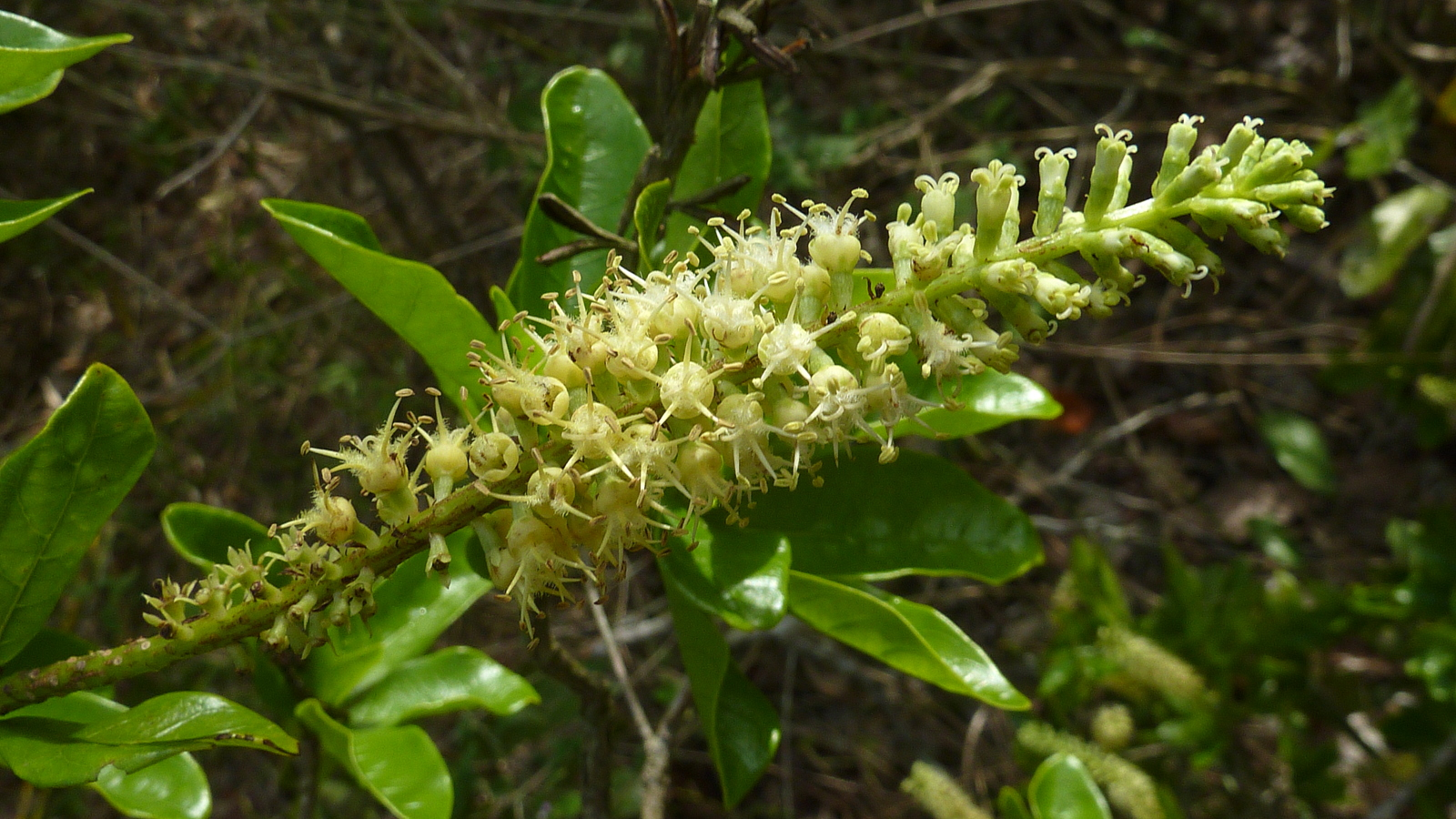 Alseis floribunda at Entre Rios, Bahia, Brazil